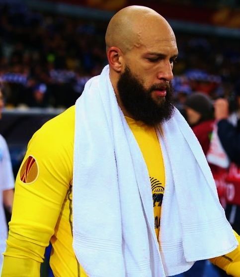 Tim Howard